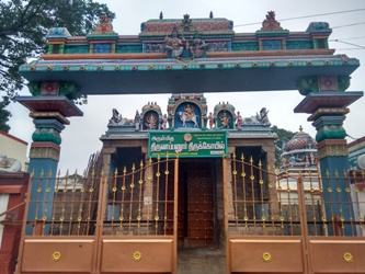 ஆப்பனூர் ஆப்புடையார் கோயில் Tiruvappudayar Temple